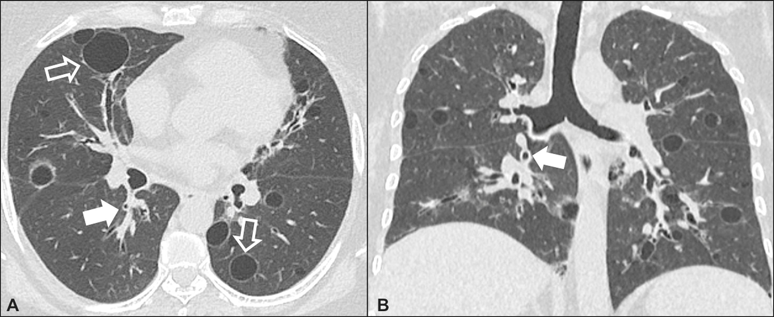 CT scan of lymphocytic interstitial pneumonia. Original caption: Figure 7 Lymphocytic interstitial pneumonia. A 62-year-old female patient with Sjögren’s syndrome. Axial high-resolution computed tomography scan of the chest (A) and coronal reformatting (B). In A, diffuse thickening of the bronchial walls (closed arrows), some ground-glass opacities and thin-walled cysts of varying sizes, with a diffuse, bilateral distribution (open arrows). In B, distribution predominantly in the lower fields.